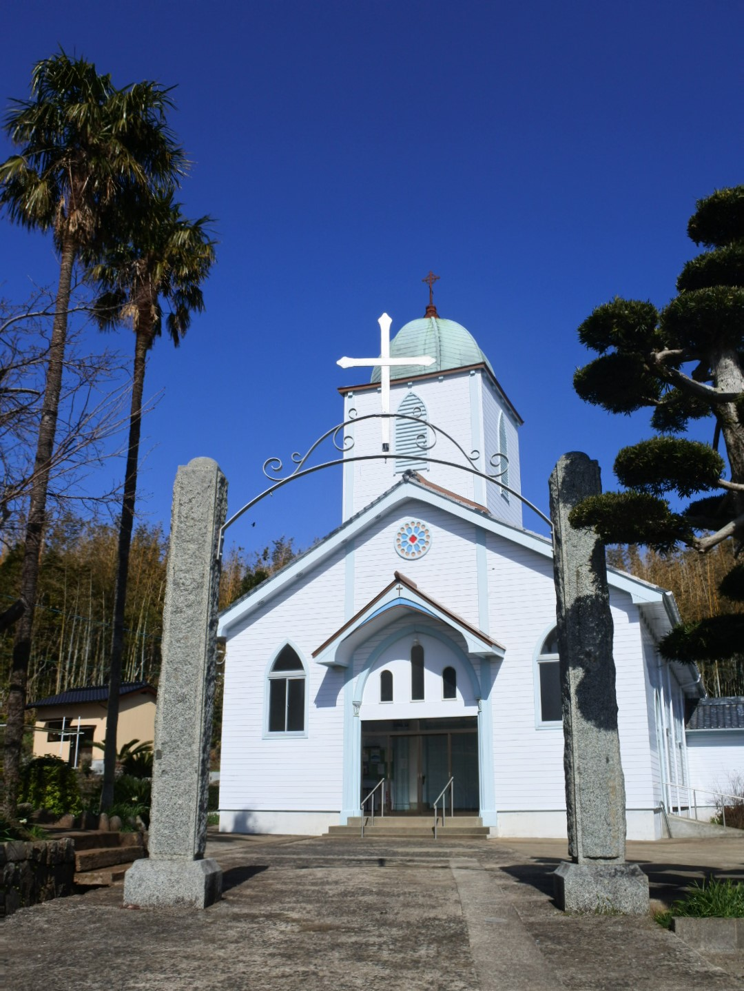 Madarashima Church on Madara-shima Island. Relocated in 1929 from Himosashi of Hirado-shima Island, Nagasaki.